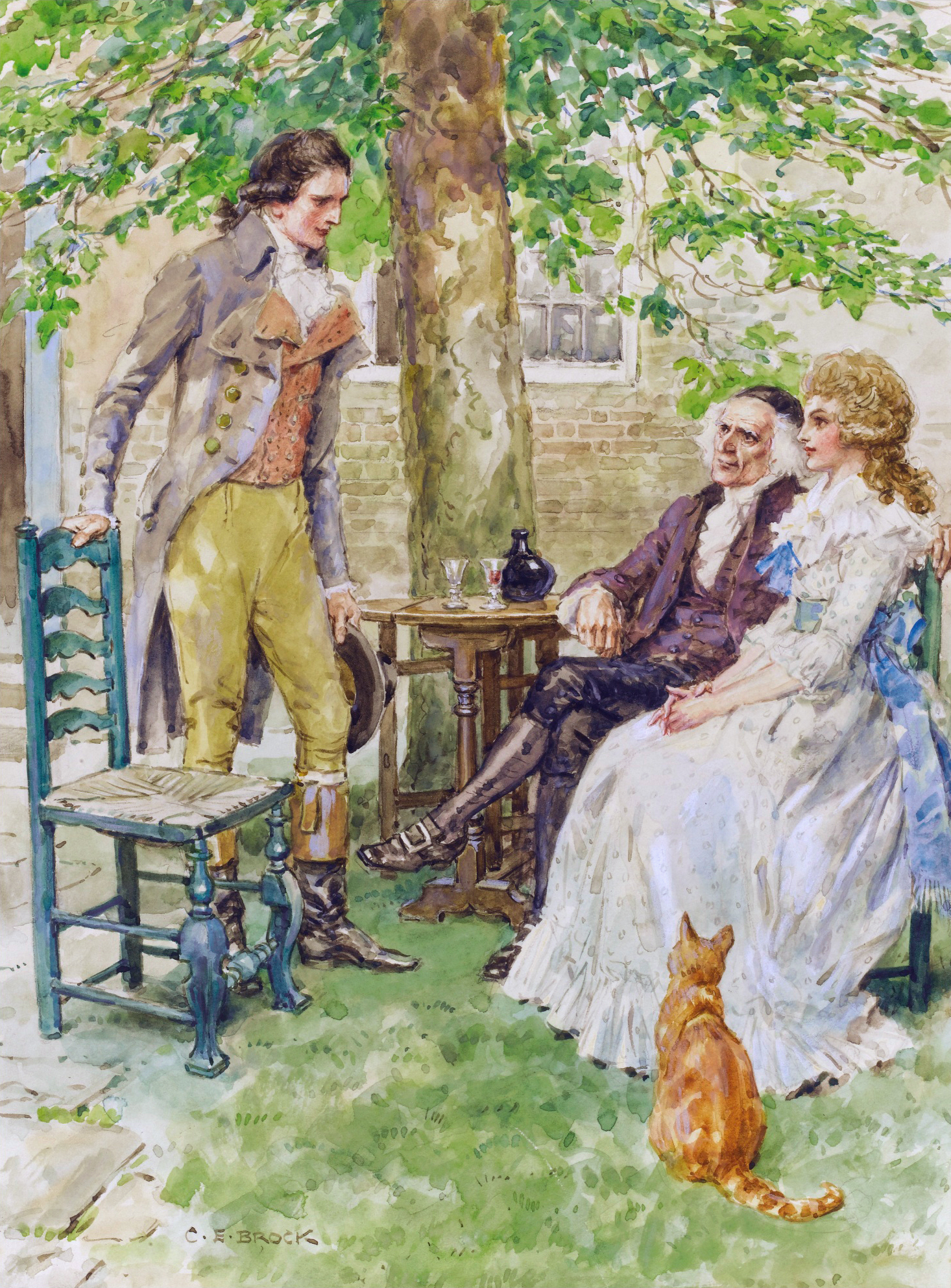 A Tale of Two Cities. "Dr Manette and Lucie with Charles Darnay" ink and watercolour drawing 26.1 x 19 cm signed b.l.: C.E. Brock